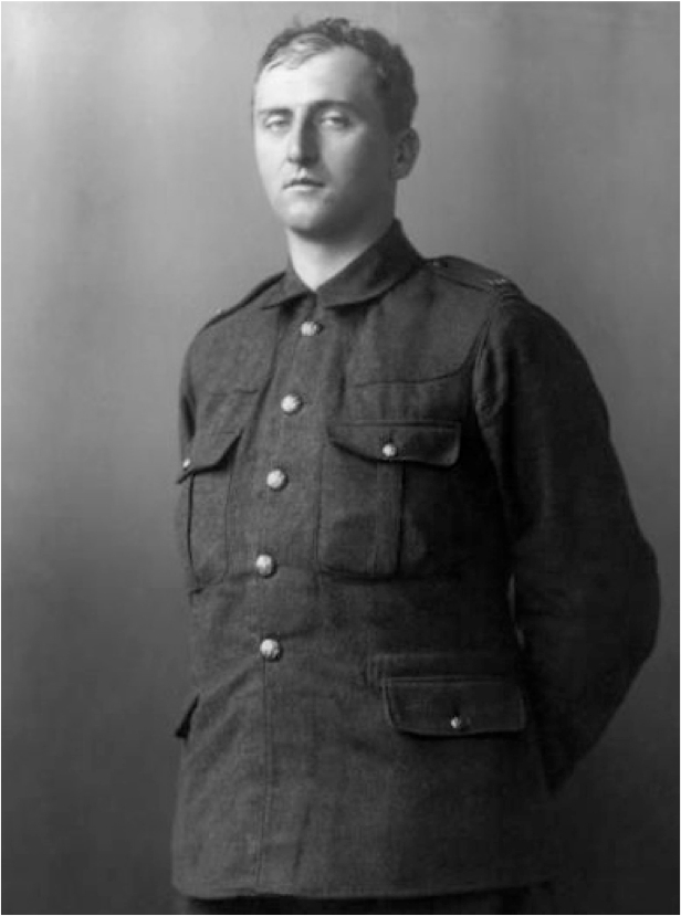 T. E. Hulme 16 September 1883 – 28 September 1917: poet